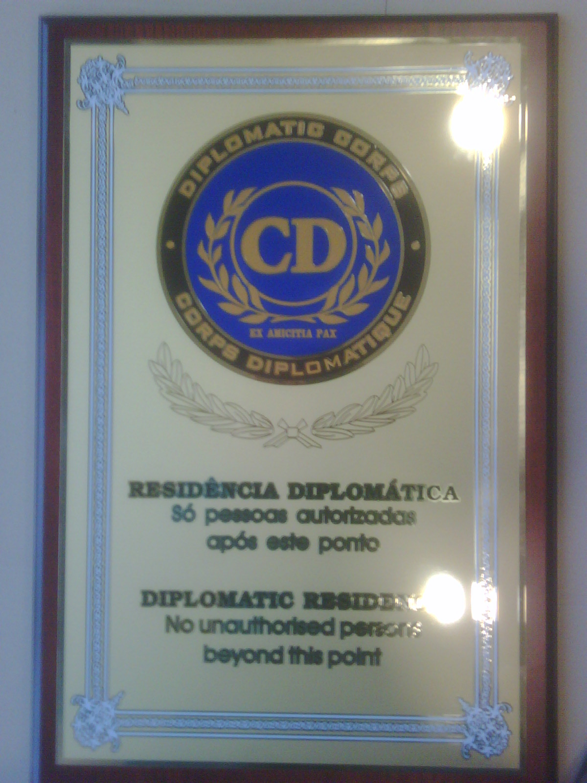 Diplomatic Corps - Corps Diplomatique Wall Plaque saying "Diplomatic Residence, No unauthorized access beyond this point" in English and Portuguese.